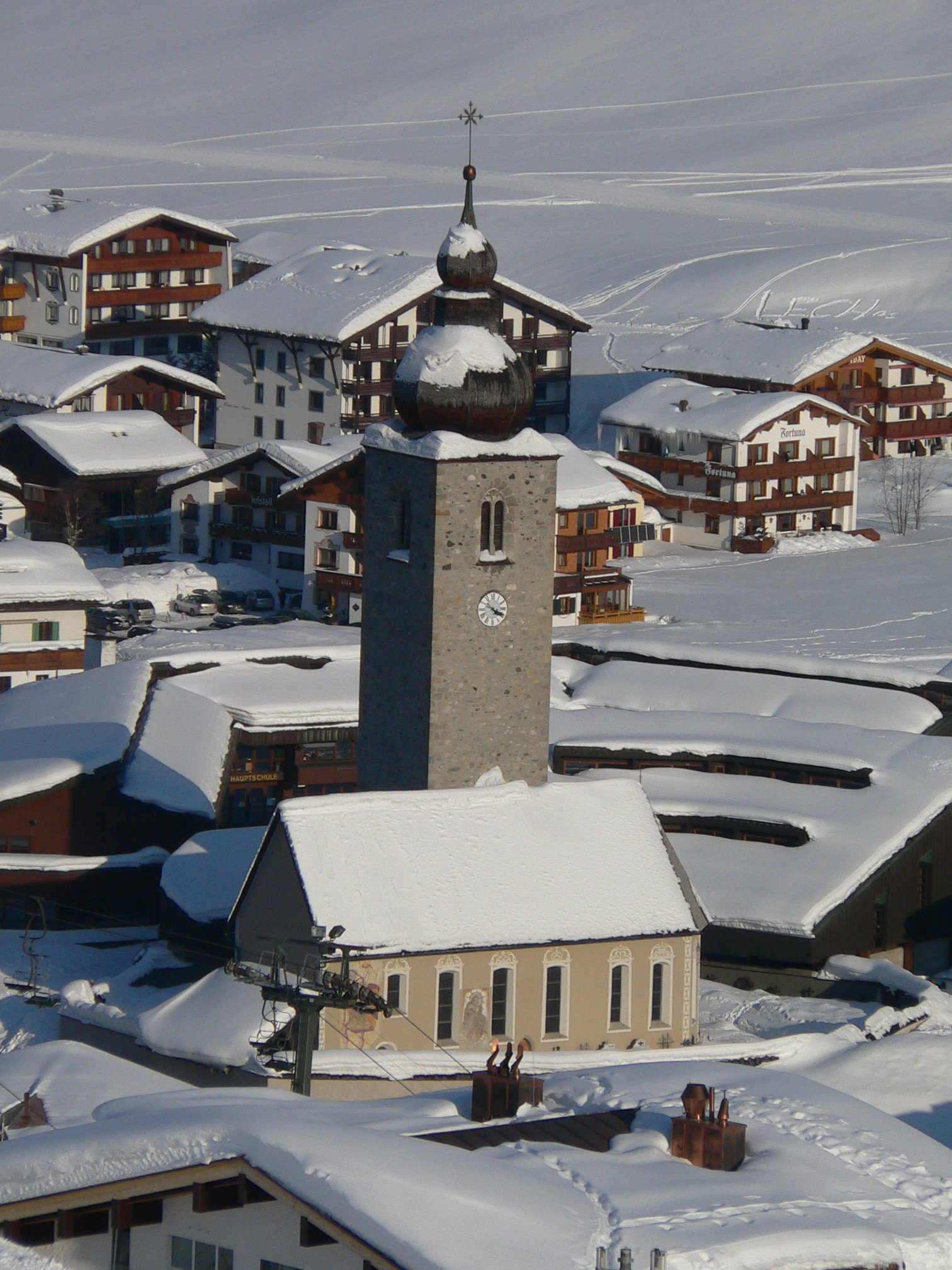 Object location47° 12′ 37″ N, 10° 08′ 33.86″ E Dorfkirche in Lech am Arlberg, selbst fotografiert